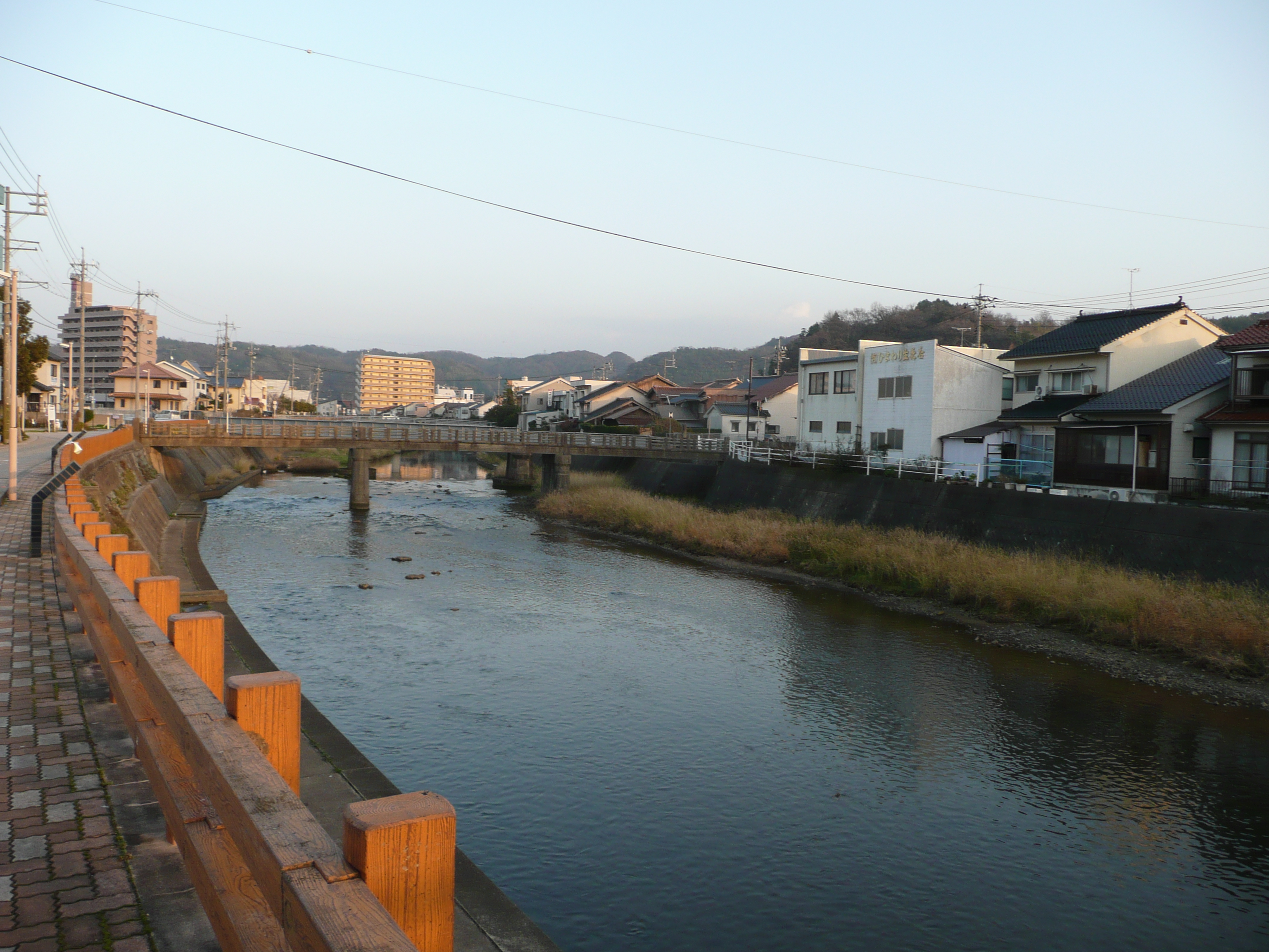 浜田市内を流れる浜田川